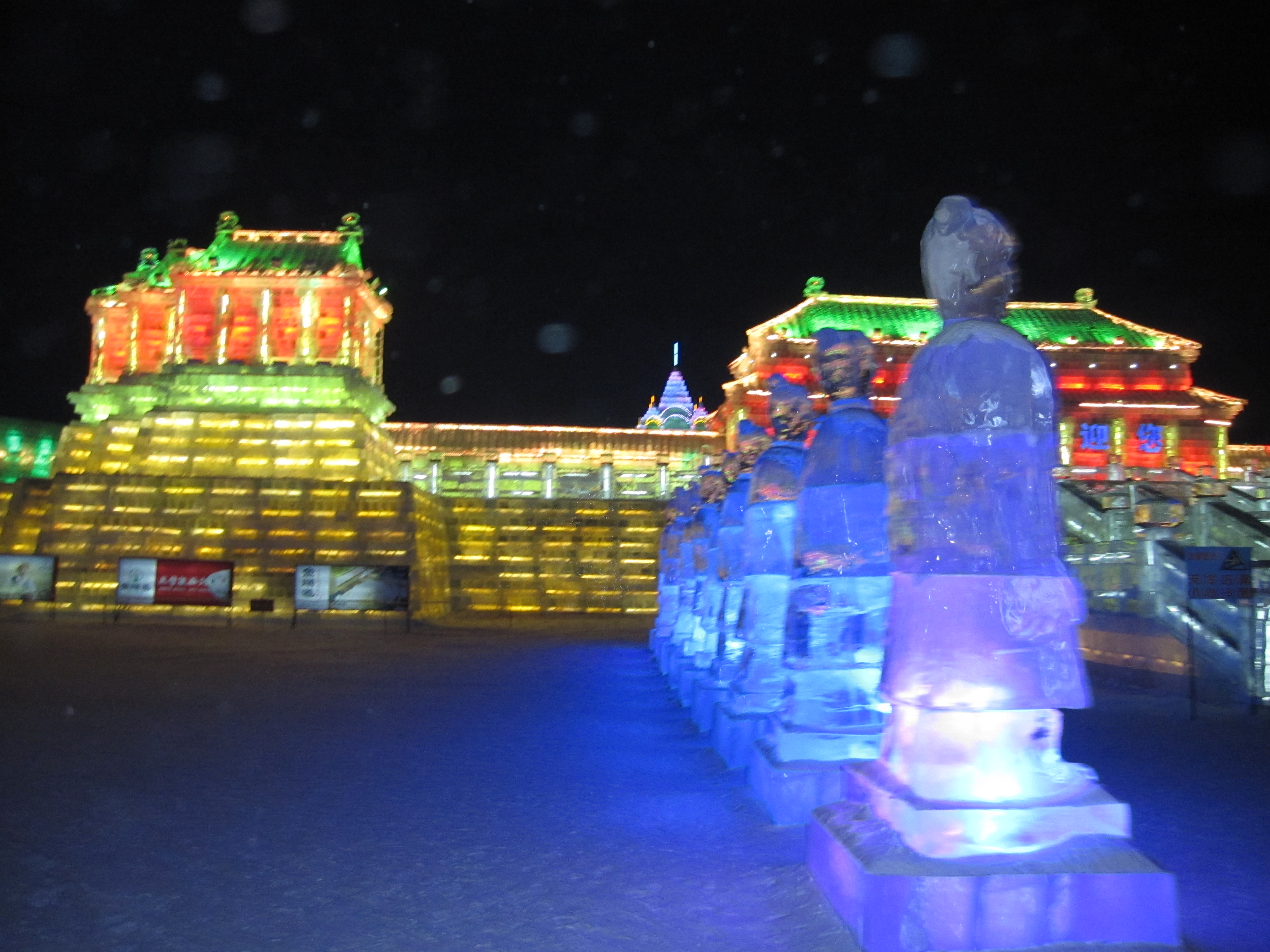 The Eleventh Harbin Ice Snow World、